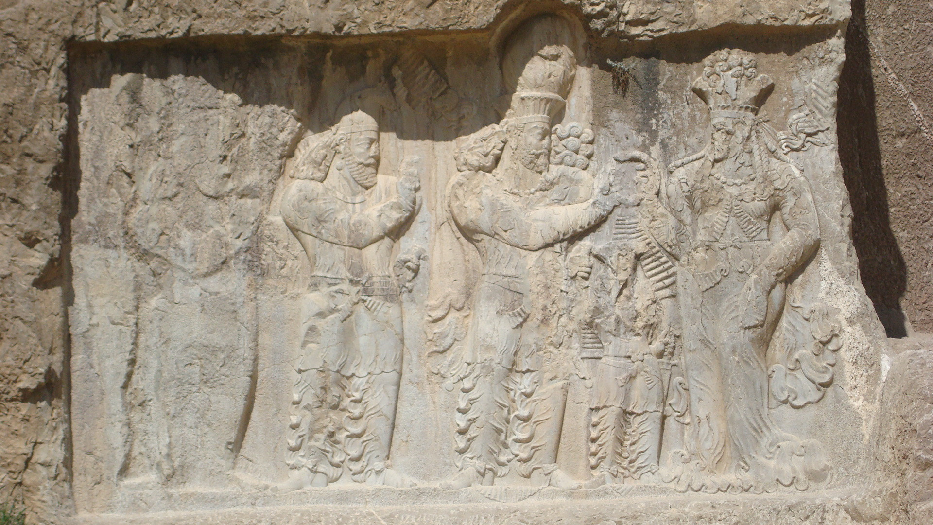 naqsherostam